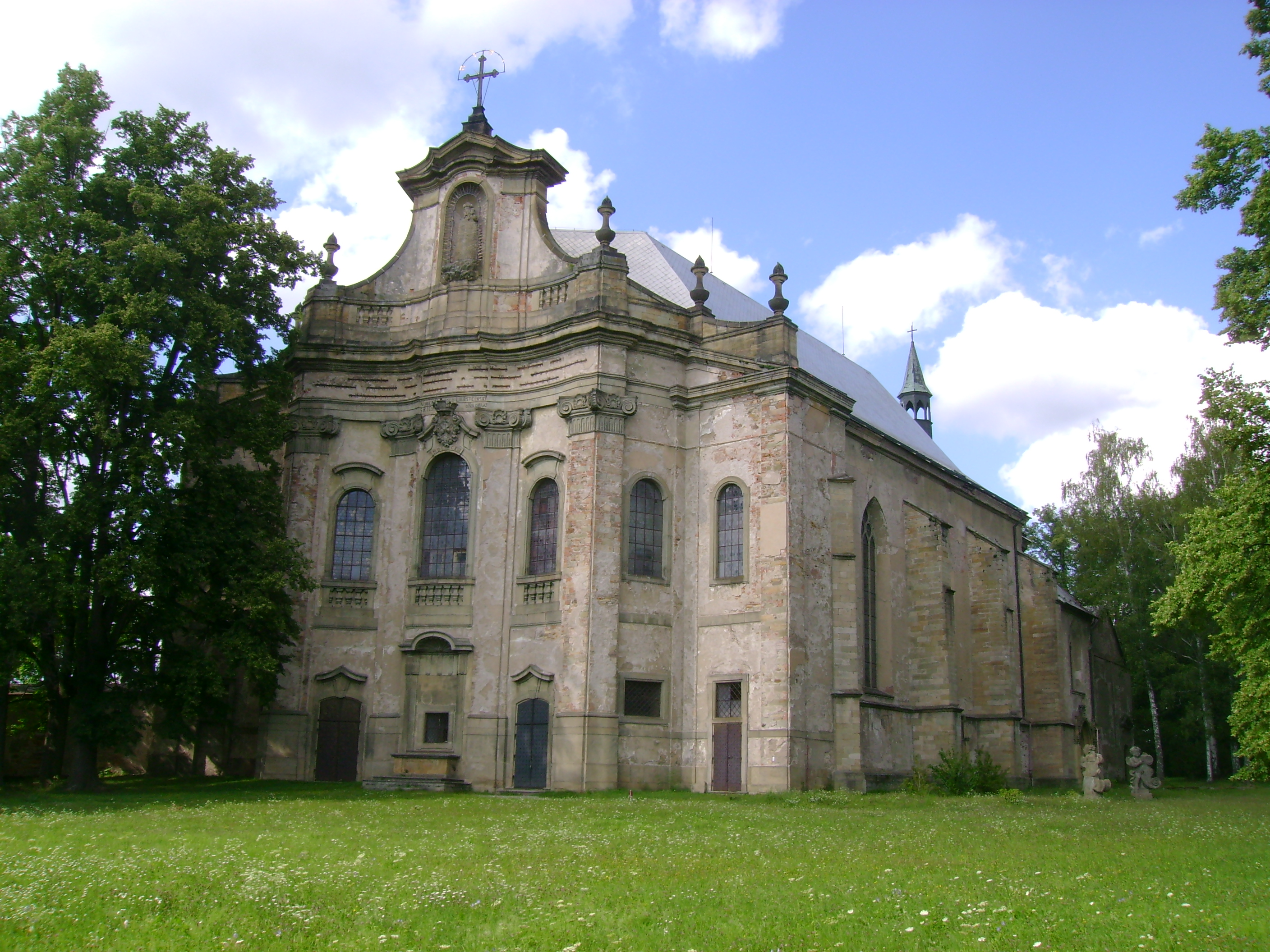 Holy Trinity Church in Rychnov nad Kněžnou, Rychnov nad Kněžnou District, the Czech Republic. Česky: Zámecký kostel Nejsvětější Trojice v Rychnově nad Kněžnou, okres Rychnov nad Kněžnou.